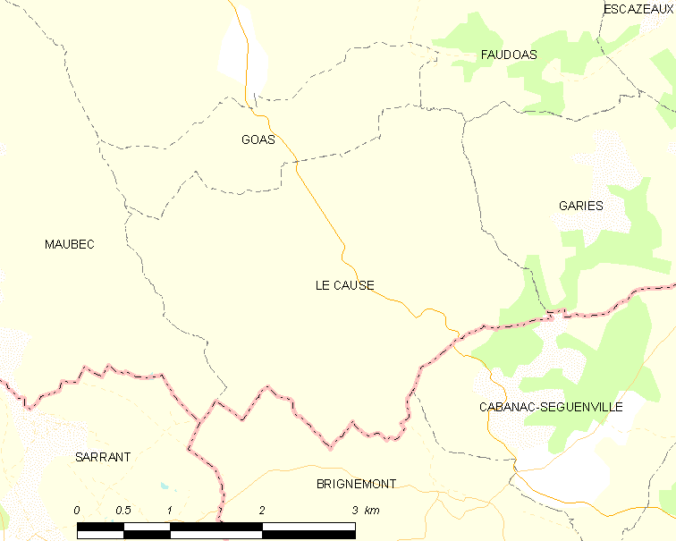 Map of French municipality Le Causé